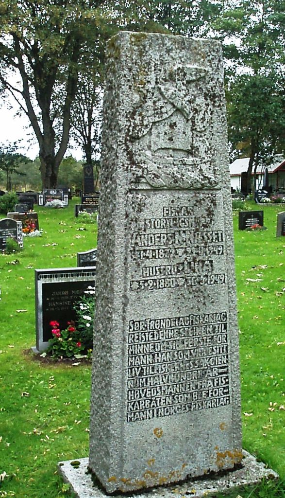 Memorial of fisherman, member of parliament and founder of fishermens organization Anders Nilsen Næsset (1872-1949) at Ørland churchyard, Norway